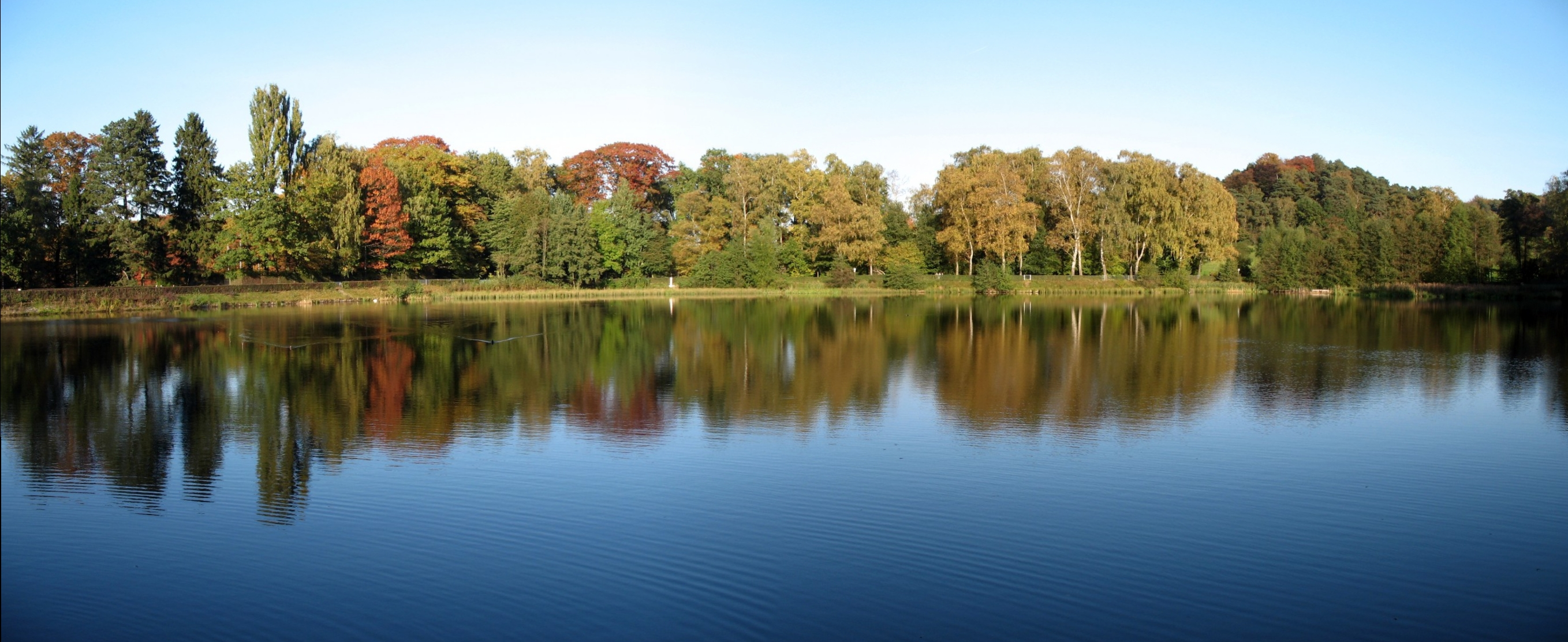 Kupferbach reservoir in the south of Aachen, Germany; built in 1929